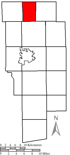 Originally created by the US Census. Modified by myself to highlight the township.